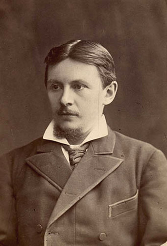 Julius Sergius von Klever (1850-1924) - Russian painter of Baltic German ancestry